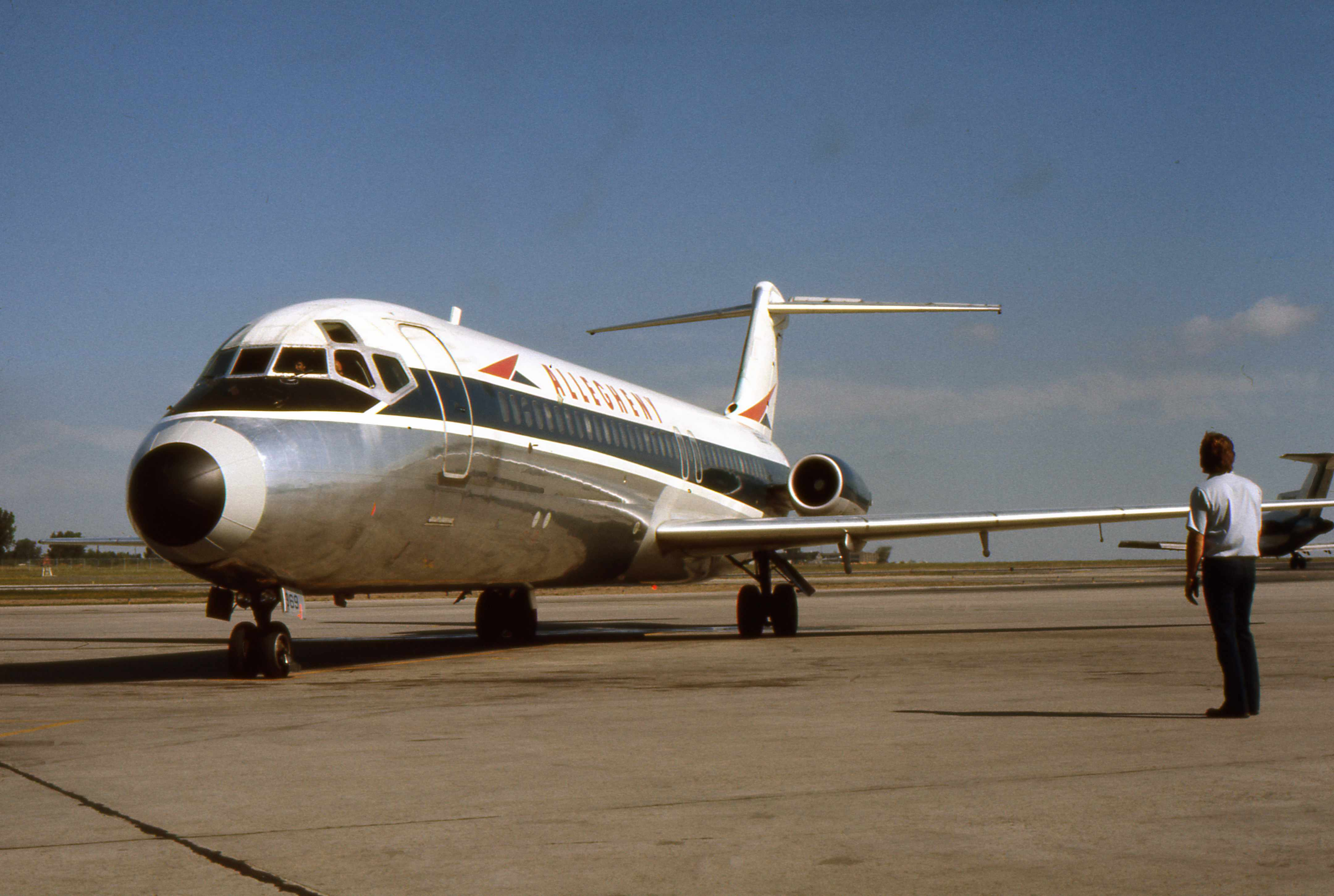 Allegheny Airlines McDonnell Douglas DC-9-31, N969VJ, c/n 47421/558 delivered on 1970-03-30.